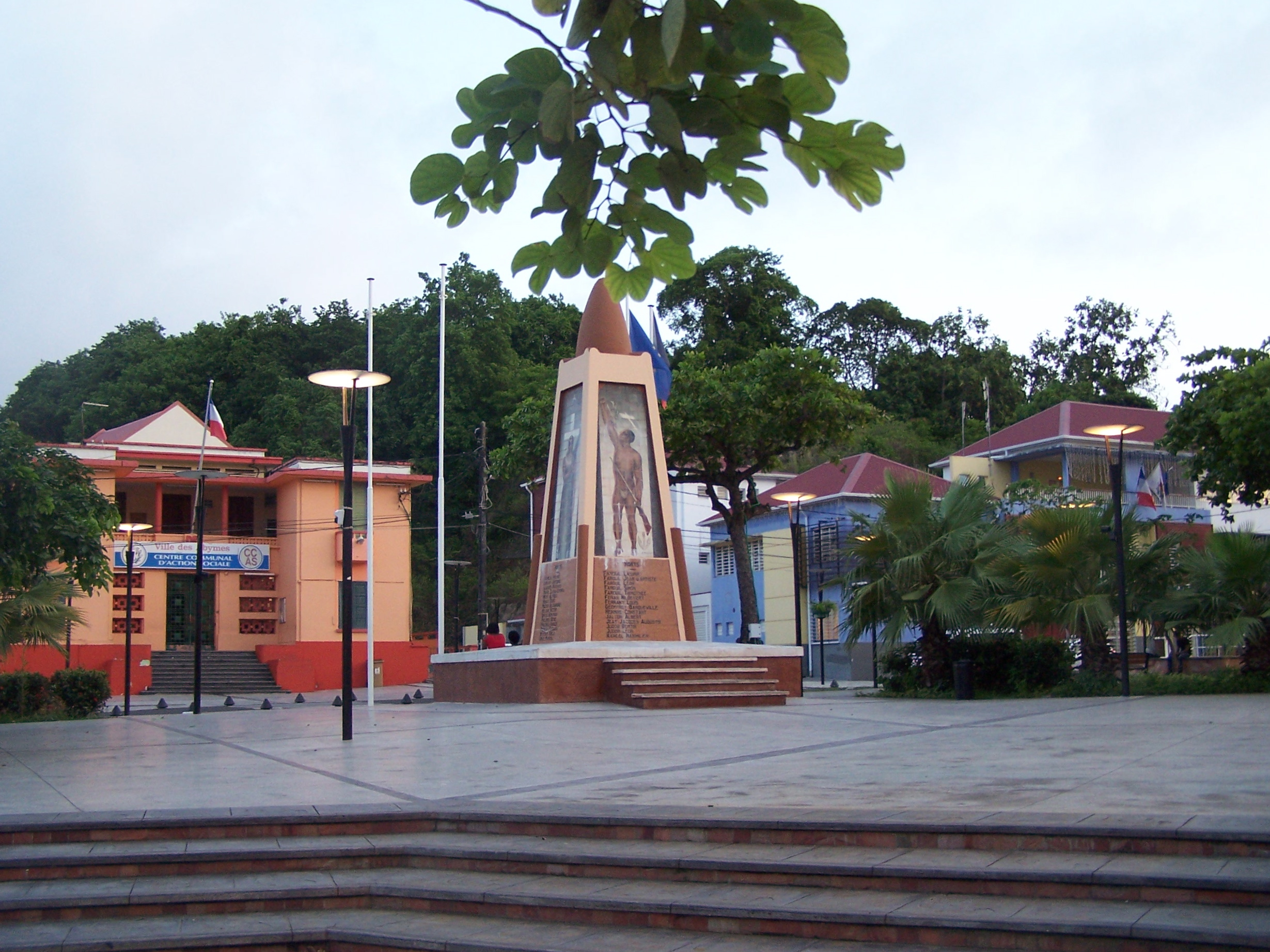 Place principale des Abymes